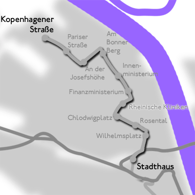 Bonn – tramway Bonn-Zentrum – Nordstadt – Bonn-Castell – Graurheindorf – Auerberg